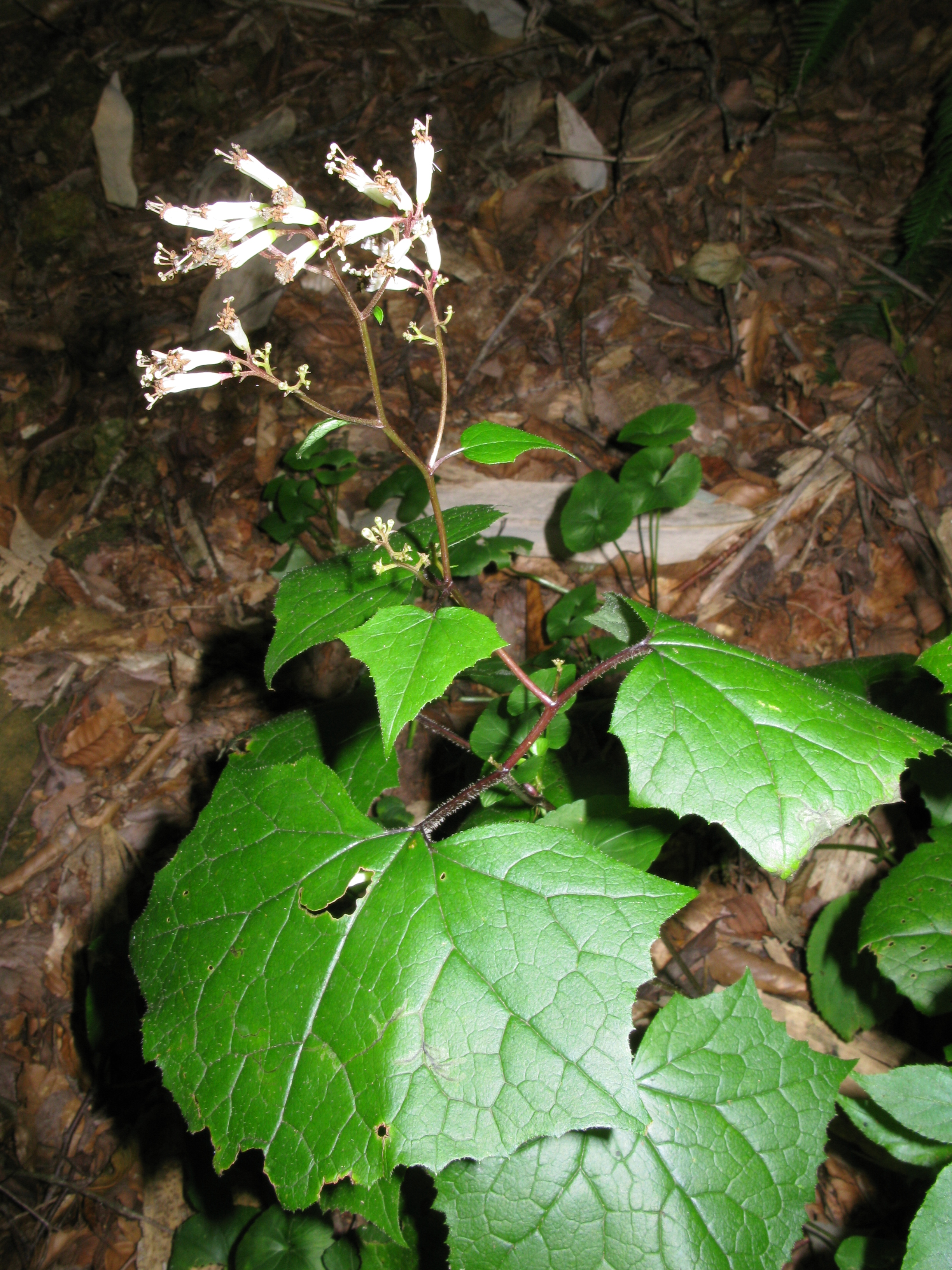 Parasenecio nikomontanus, Nakadouri area, Fukushima pref., Japan